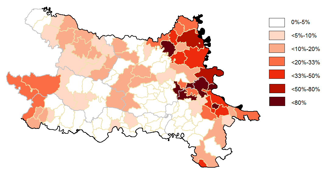 Percentage of citizens who declared nationality (ethnicity) other than Croat at the time of 2011 Census in Croatia (including undeclared and unknown ethnicity).